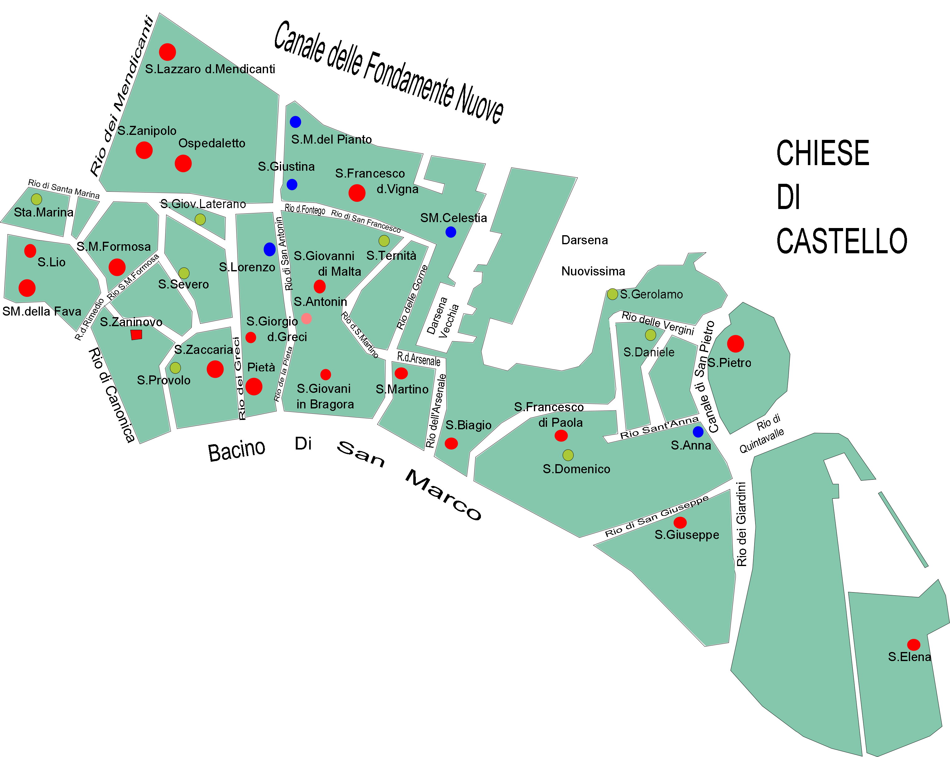 churches of Castello